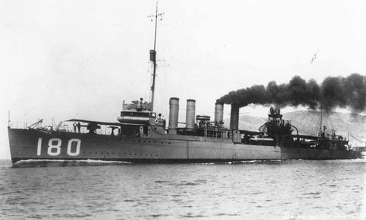 The U.S. Navy destroyer USS Stansbury (DD-180) underway off San Diego, California (USA), circa in 1920-1922, while serving with Destroyer Division 22.